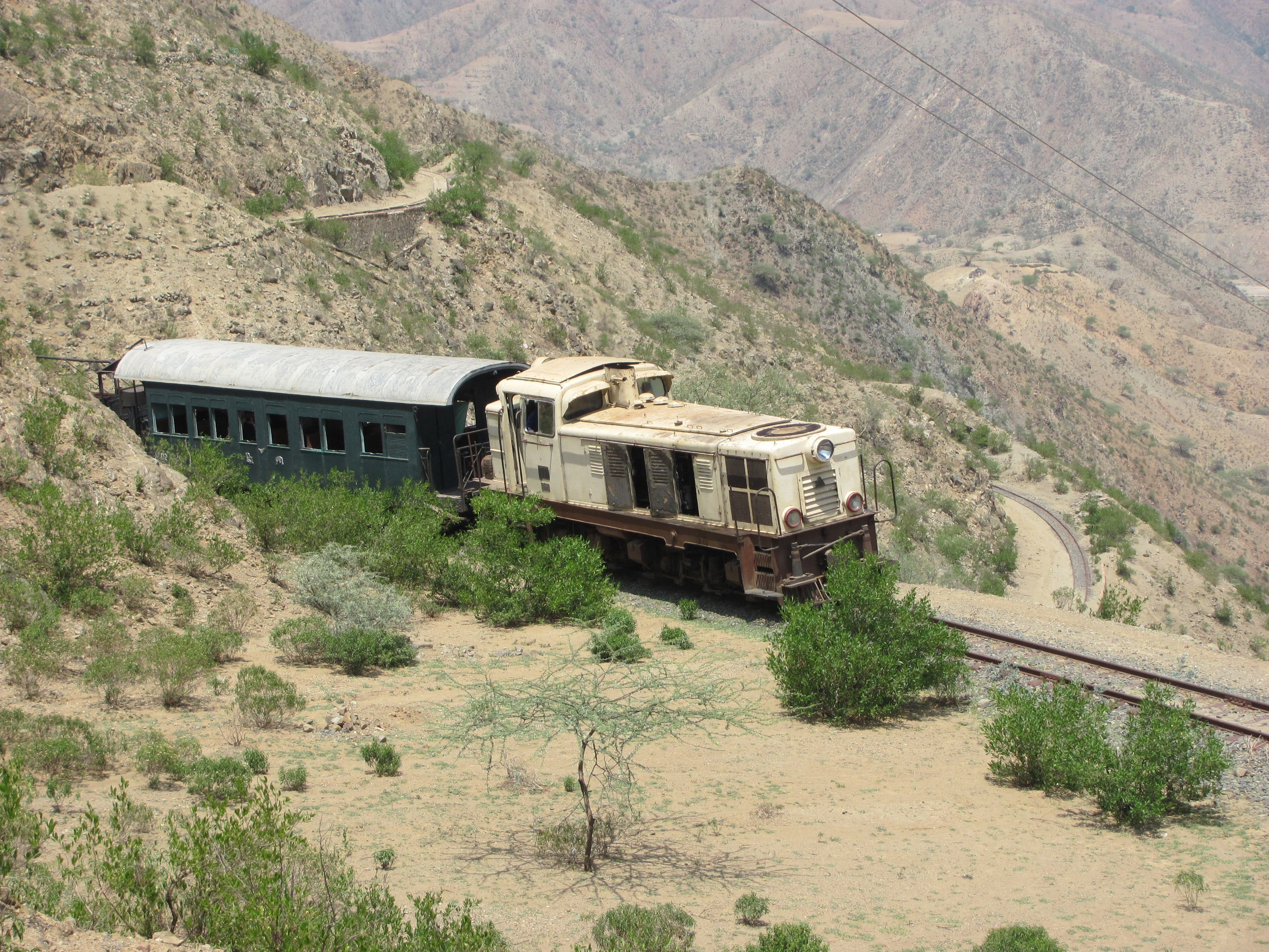 Rly line Massawa-Asmara between Ghinda and Embatkalla with diesel loco 27 D